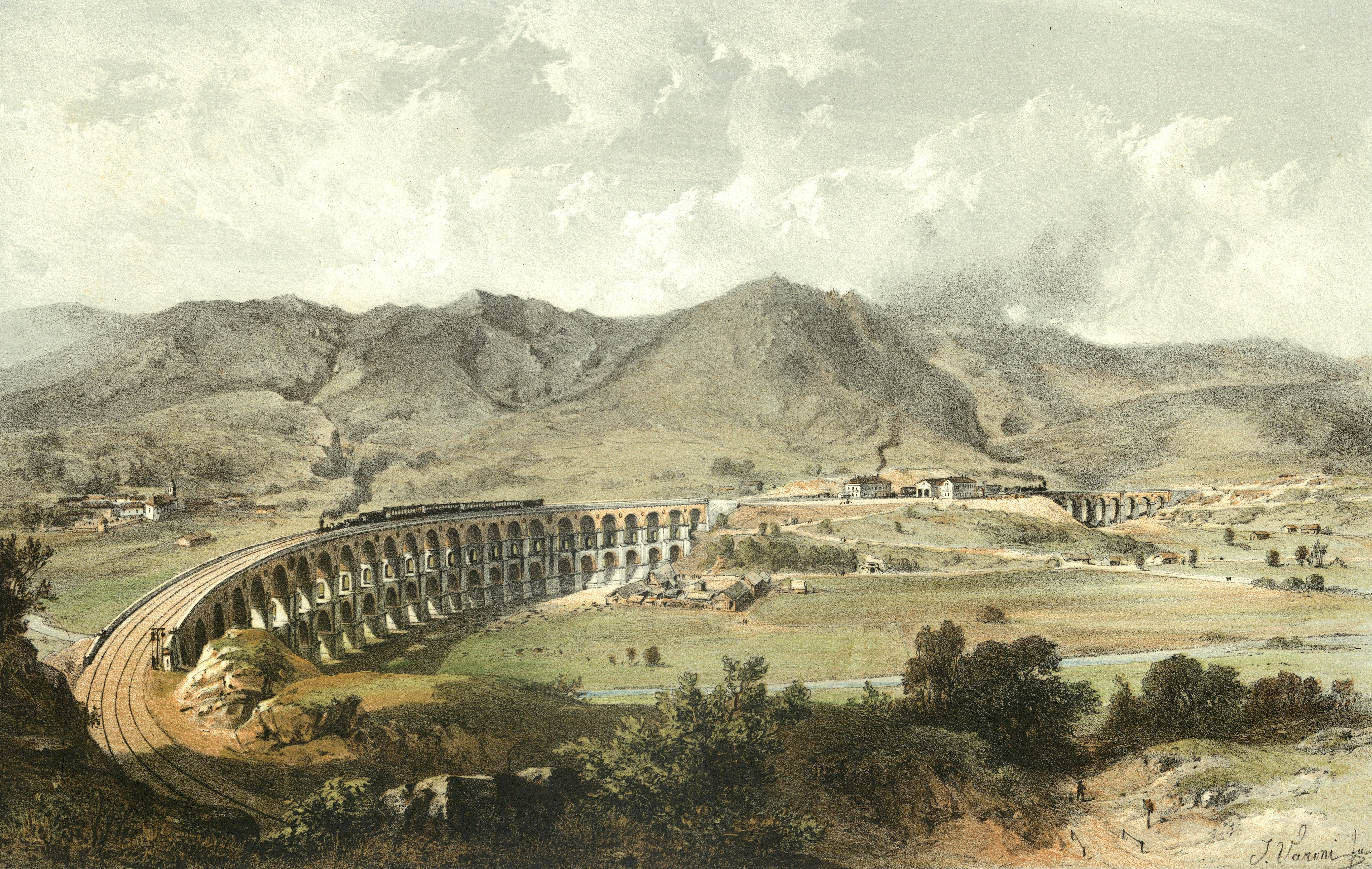 The former Borovnica railway viaduct (also known as Franzdorfer Viadukt in German) in Borovnica, Slovenia. The viaduct was badly damaged during WW2 and blown down completely a few years after.